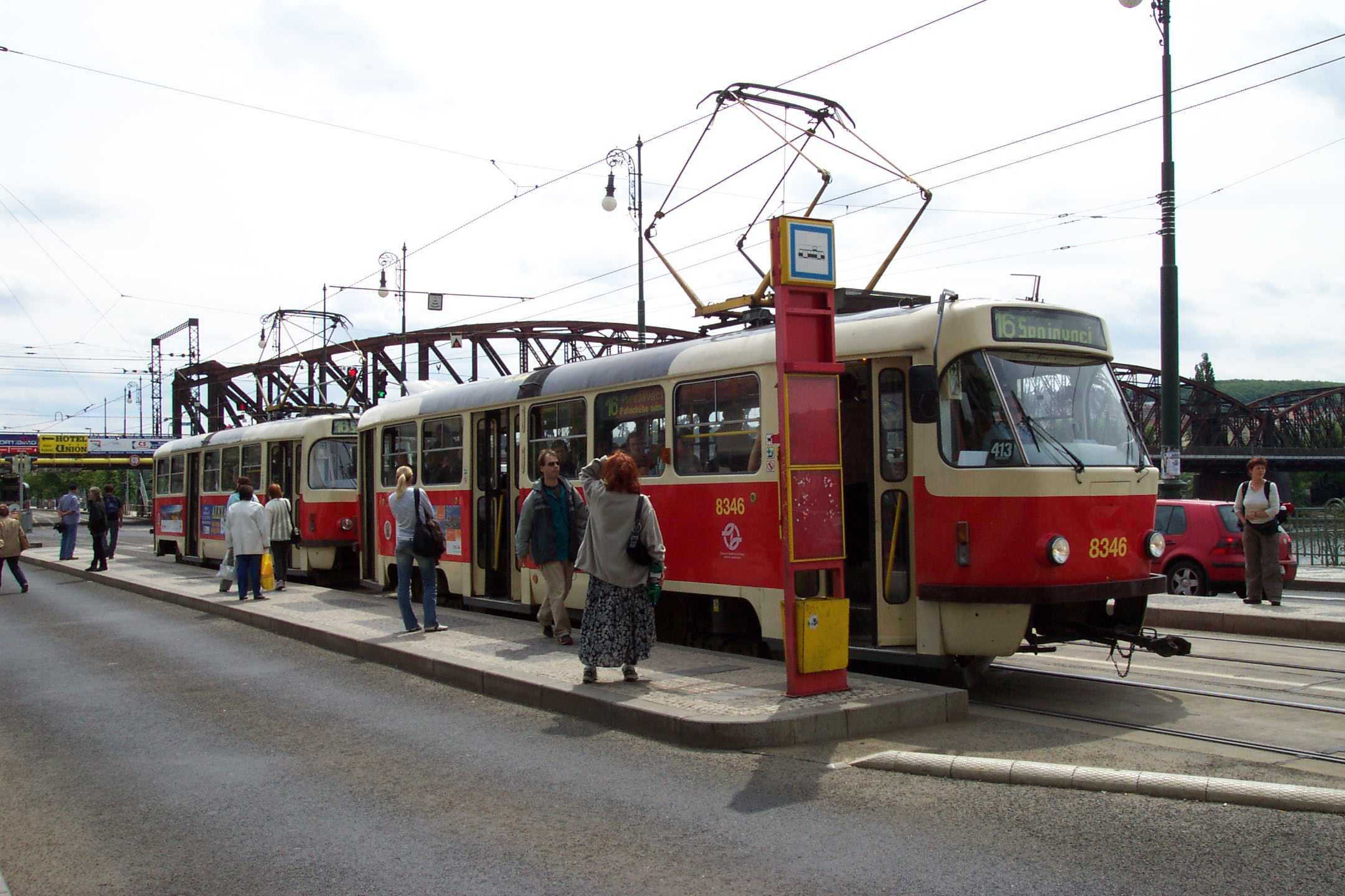 Prague tram type T3P at station Výtoň